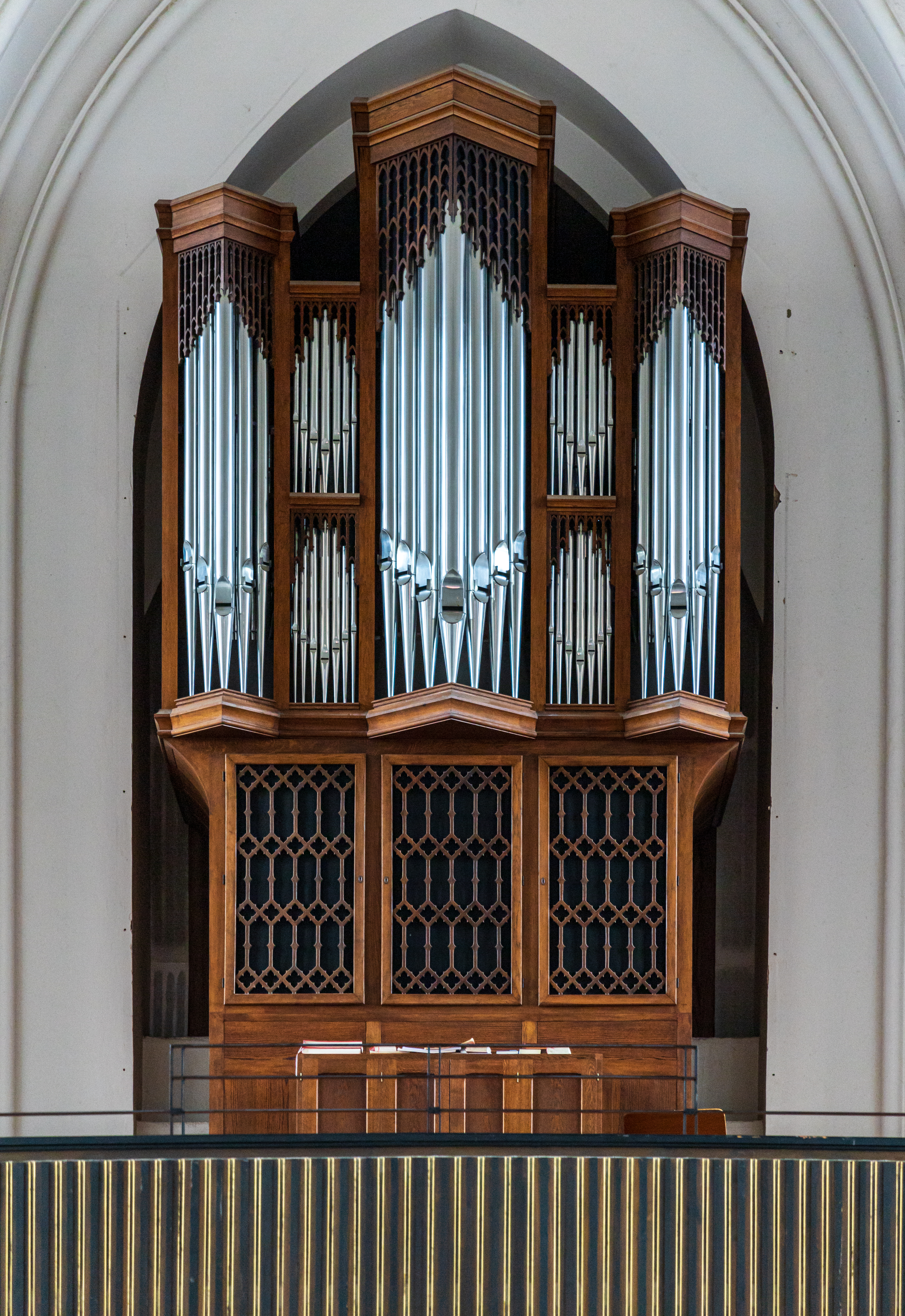 Pauluskirche (Kiel) – Organ